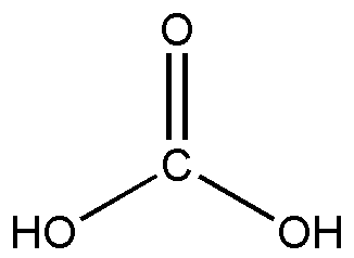 Carbonic acid Chemical Formula: CH2O3 Exact Mass: 62,00039 Molecular Weight: 62,02478 Elemental Analysis: C, 19.36; H, 3.25; O, 77.39